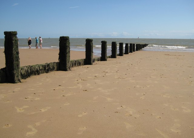 Frinton-on-Sea: One of many groynes The beach at Frinton has many groynes, designed and built to stabilize the movement of sand along the beach, so-called longshore drift. Here at Frinton the groynes are alternately full length, like this one, extending into the sea even at low tide, and half length such that the seaward end is exposed at low tide. They are spaced about 50 yards, or 46 metres, apart along the beach.